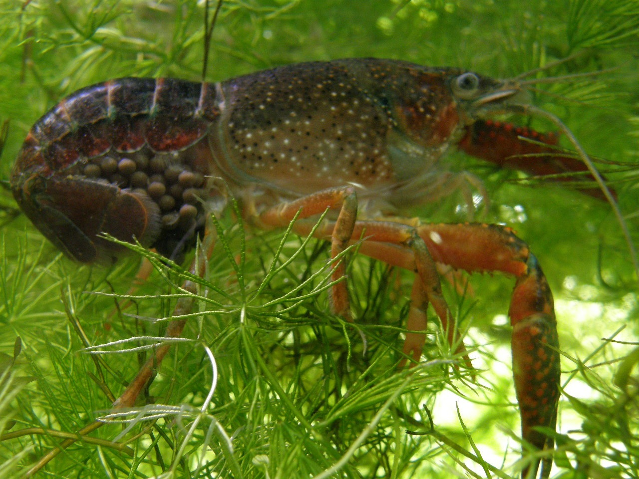 Procambarus clarkii